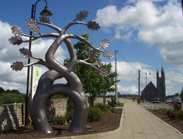 Sculpture at Bridge: Ballybofey 'The Matrimony Tree' was funded by Donegal Strabane Heart Programme, and is on the Ballybofey side of the Finn river.